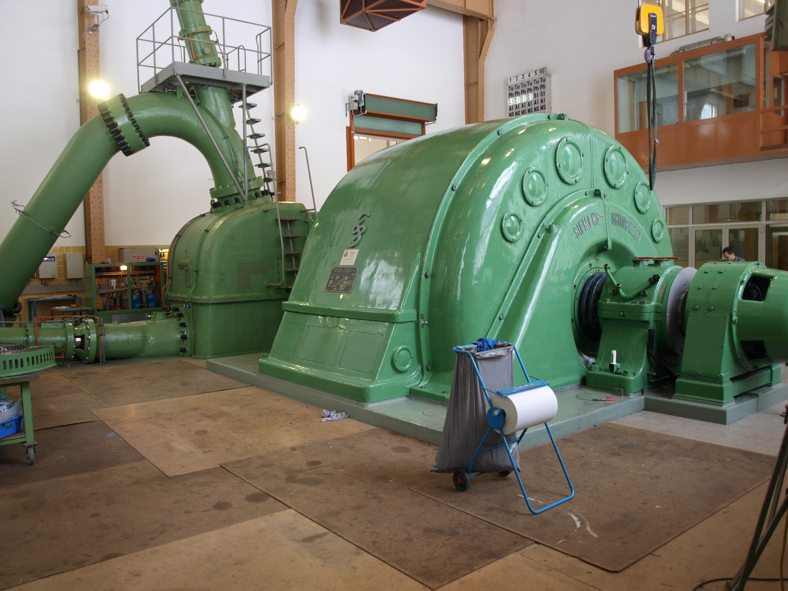 Machine group 5, Siemens electric generator (front), water turbine (back). Vermuntwerk, Partenen, Vorarlberg, Austria